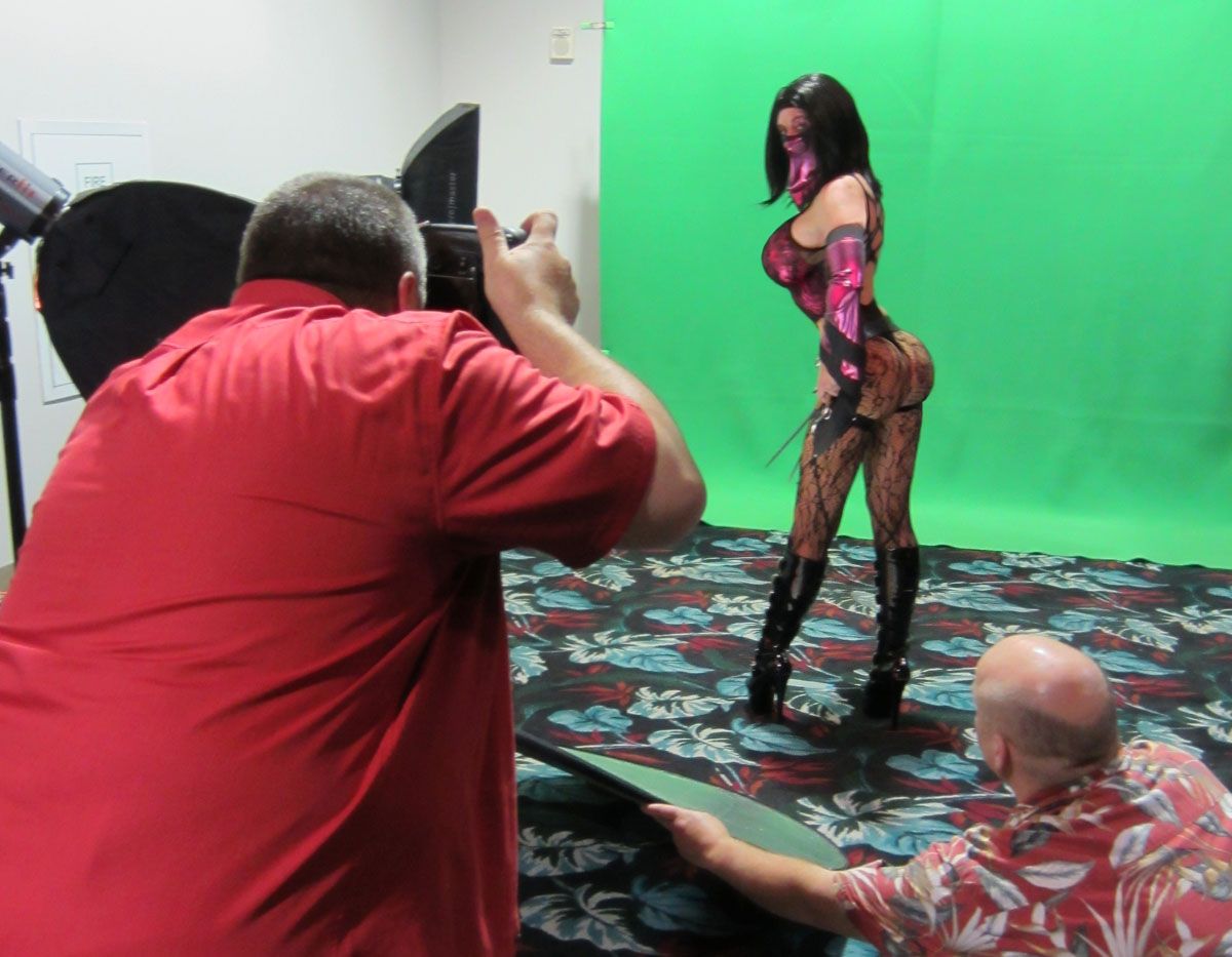 Mileena cosplayer for a chroma key studio photoshoot at Space City Con 2014 in the United States. Sorry for the blurriness - it's from an inexpensive camera, and my BF didn't use the flash because he didn't want to get in the way or annoy the professional photog. Also, the photographer was great, but I hadn't done a shoot like this before! It was weird - he communicated VERY clearly - "Stick your butt out some more. More...more...more..., Ok, now take a deep breath and stick out your boobs...more...more...OK HOLD IT" (snap, snap, snap)